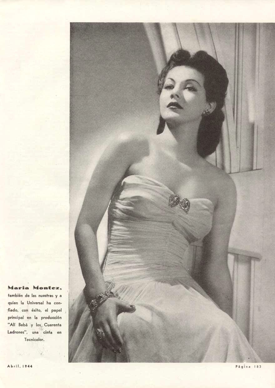 Publicity photo of Maria Montez for Argentinean Magazine. (Printed in USA)